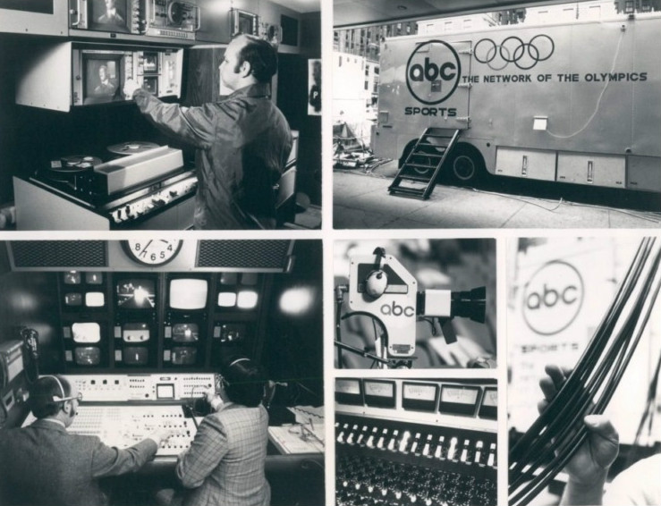 Publicity photo of an ABC (American Broadcasting Company) Television mobile unit with descriptions of the equipment inside. (Description page is uploaded first with photo.)